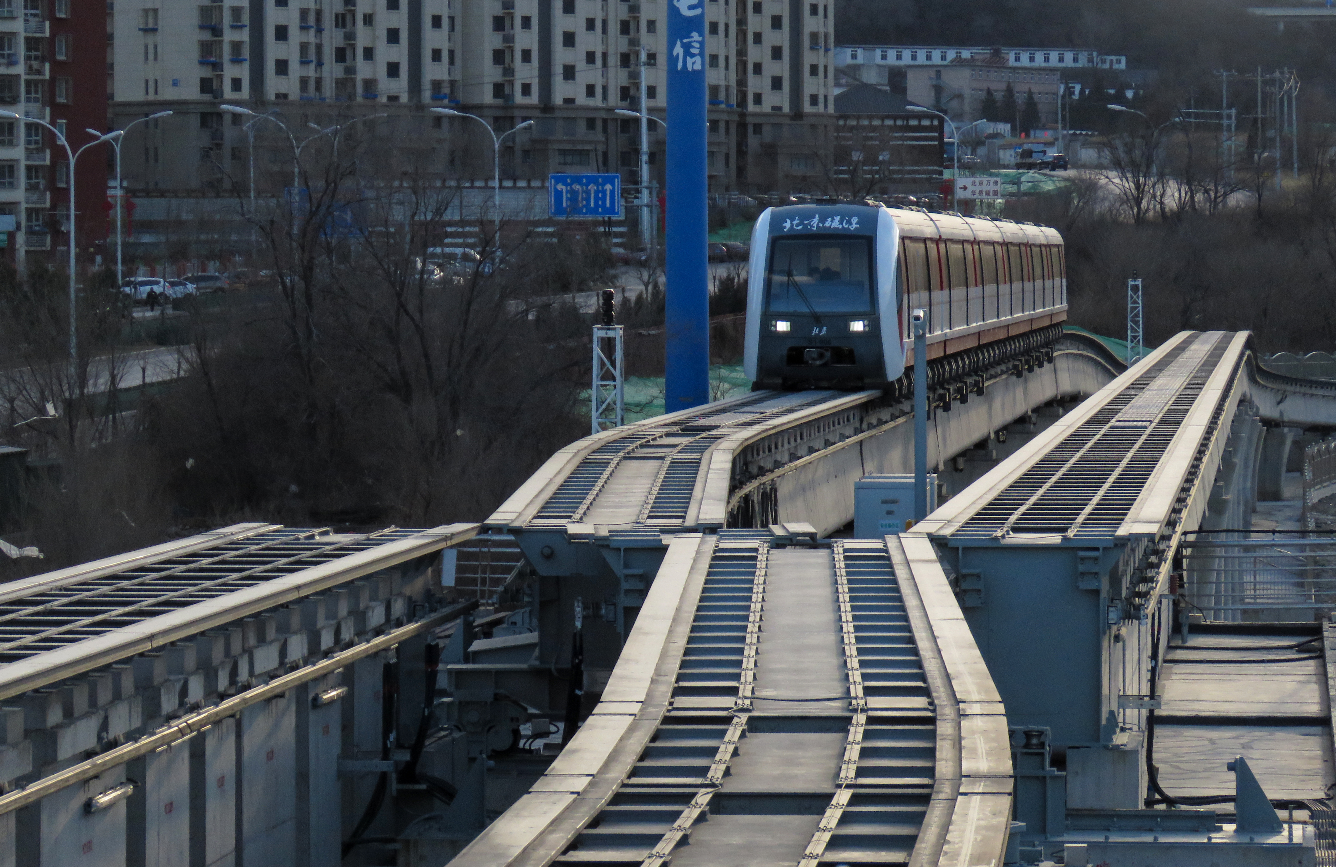 "Please do not blink!"